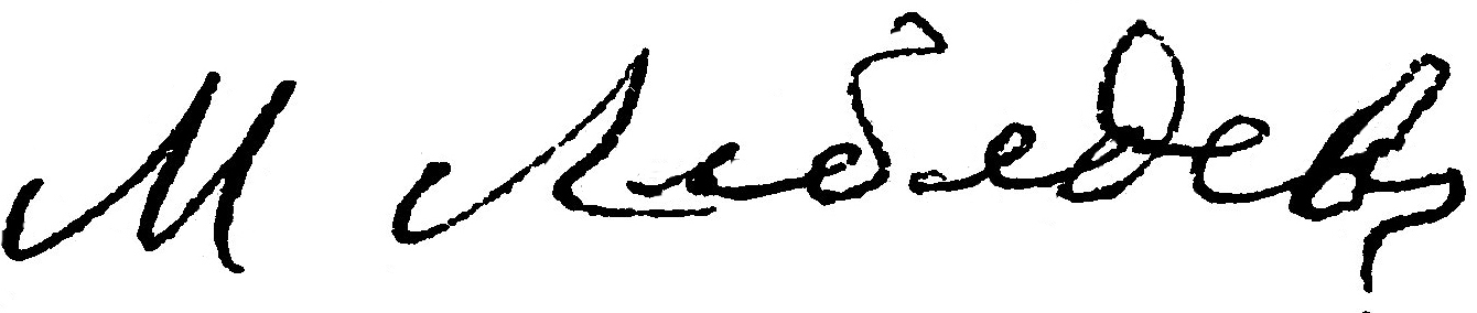 A signature of Mikhail Lebedev, a member of the First Russian State Duma